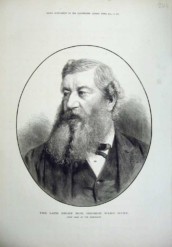 Portrait of George Ward Hunt